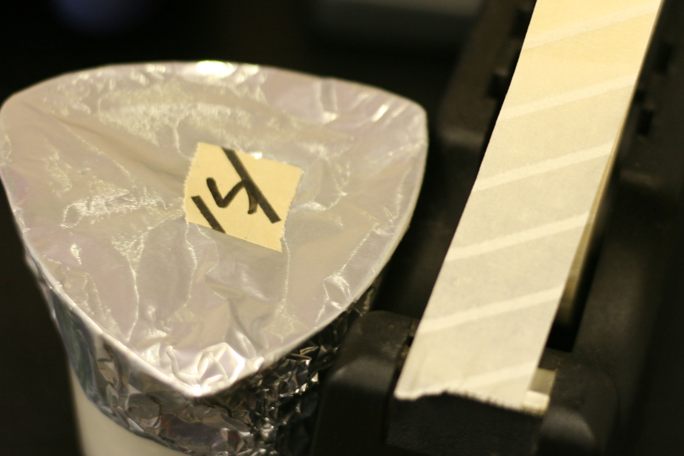 Autoclaved (left) and unautoclaved (right) autoclave tapeTürkçe: otoklavmış (solda) ve otoklavlanmamış (sağda) otoklav bandı